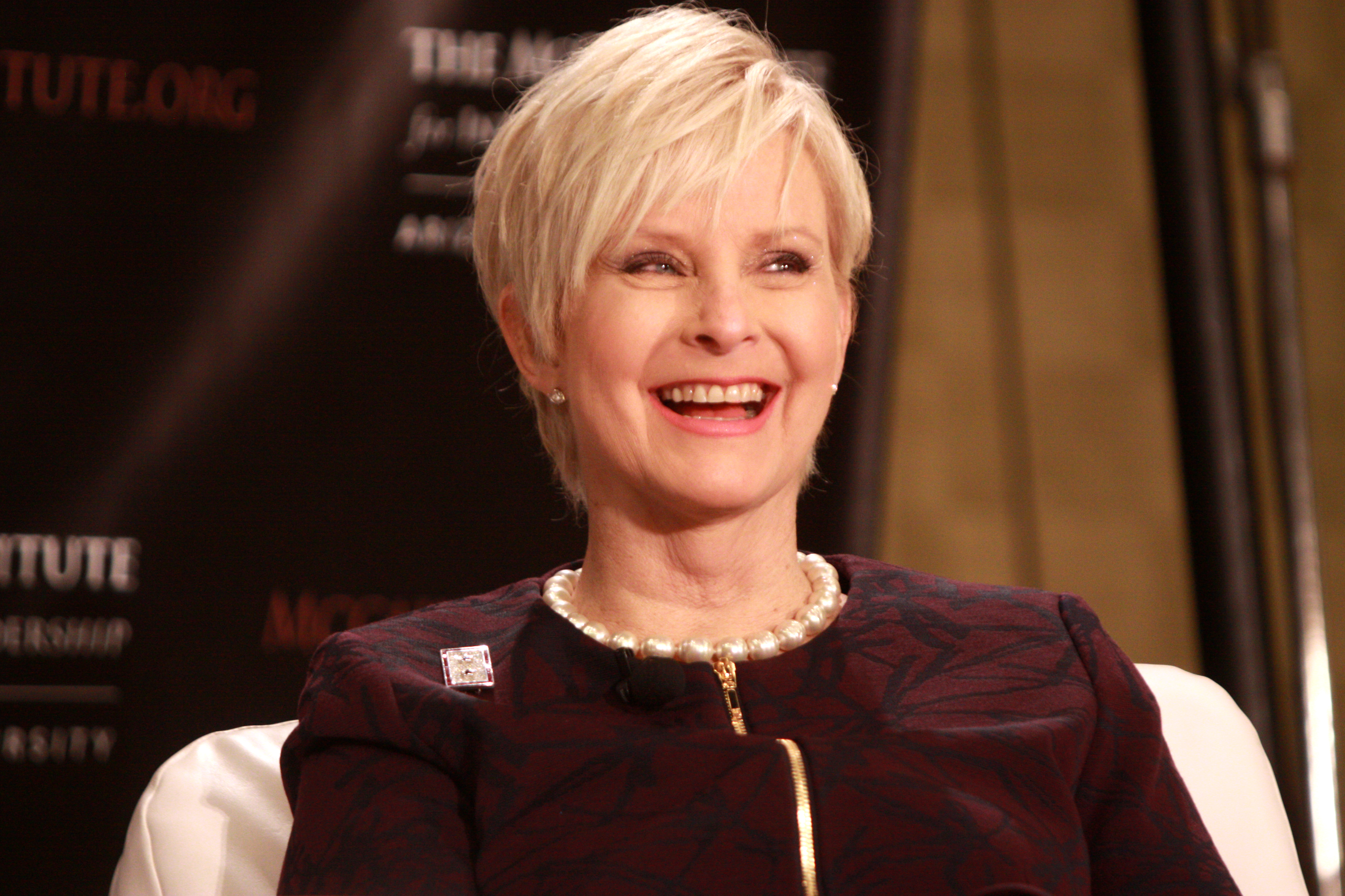 Cindy McCain speaking at an event hosted by The McCain Institute in Phoenix, Arizona on November 22, 2013